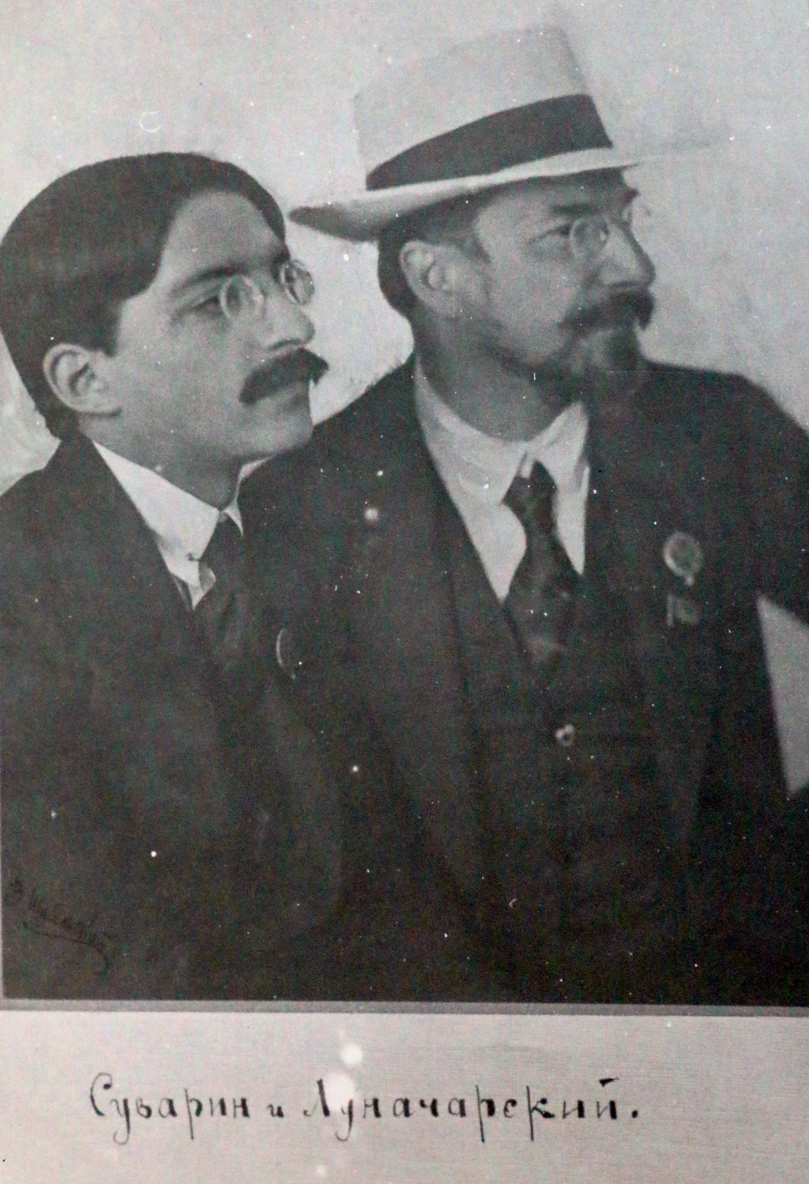 Boris Souvarine Papers - Soviet Russia Photos Notes: This document is a photographic reproduction of a portrait. The inscription reads: "Souvarine and Lunatscharski". Anatoli Lunatscharski (1875-1933) was among the "Old Bolsheviks", charged since October Revolution of education and culture questions in the Bolshevik Party. Boris Souvarine was a member of the Secretariat of the Communist International between 1921 and 1924, representing the French Communist Party, of which he was one of the founders. He attempted to defend himself at the XIIIth Congress of the CPSU, and Anatoli Lunatscharski translated his speech. Photographer: V. Shabel'skii. Description: 1 photograph. Black and white ; 17.5 x 12.5 cm. Sources and further reading: Panné, Jean-Louis. 1993. Boris Souvarine: le premier désenchanté du communisme. Paris: R. Laffont. Roche, Anne. 1990. Boris Souvarine et la “Critique sociale” . Paris : Éd. de la Découverte.